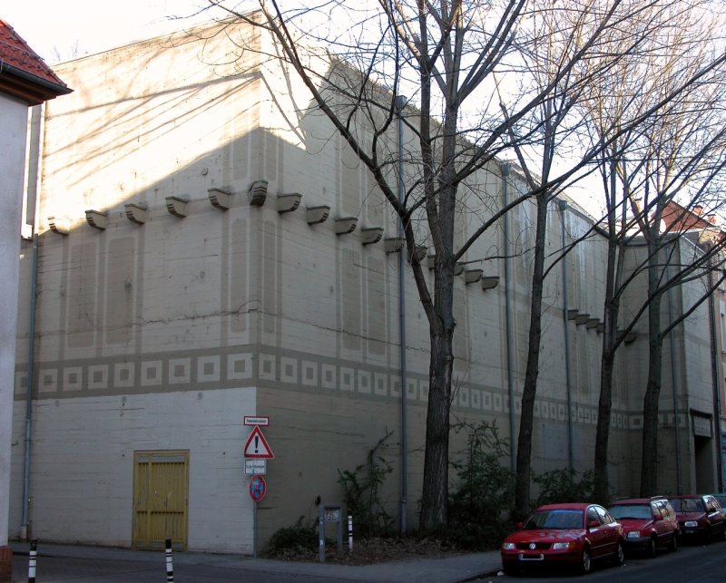 Brunswick, Germany: World War II Bunker Kaiserstraße (picture taken in January 2006).